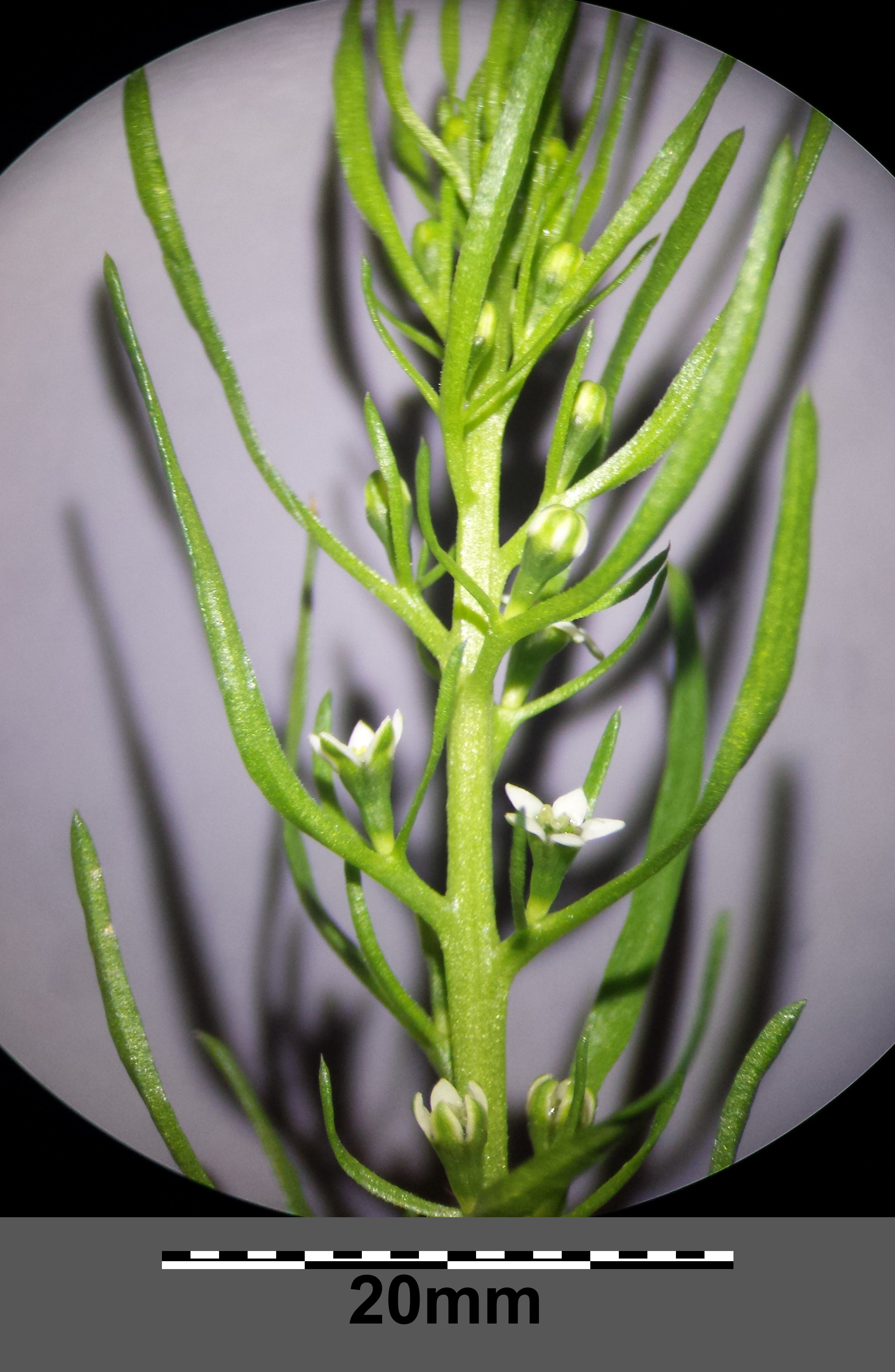 Inflorescence Taxonym: Thesium dollineri ss Fischer et al. EfÖLS 2008 ISBN 978-3-85474-187-9 Location: near Schleinbach, district Mistelbach, Lower Austria - ca. 280 m a.s.l. Habitat: slope of a way